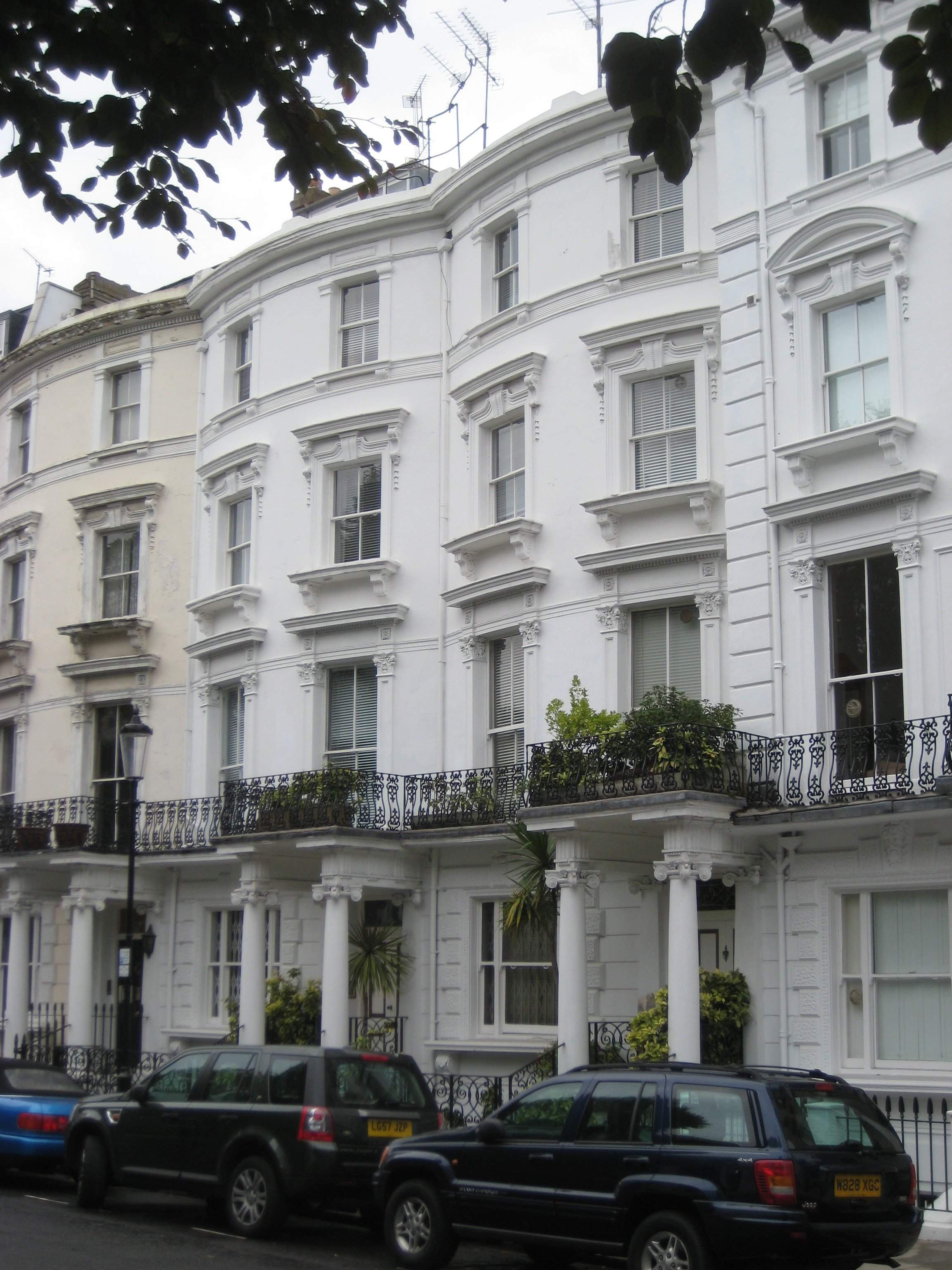 The Samarkand Hotel in Lansdowne Crescent, London, England, where Jimi Hendrix spent his last night. It is no longer a hotel but private apartments.